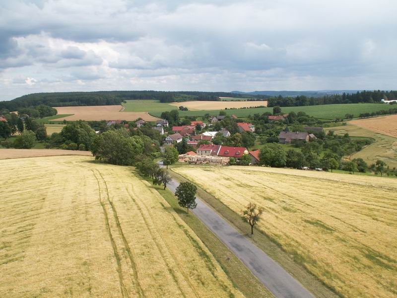 Vrbice view from a near-by watchtower.